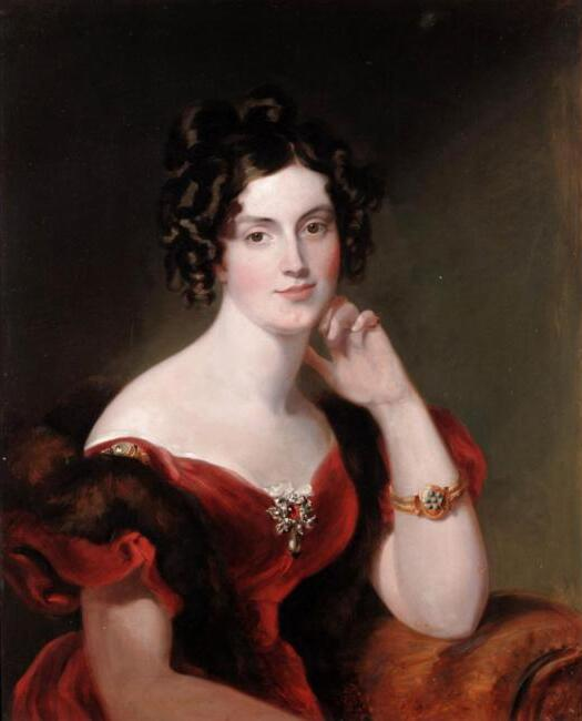 Lady Elizabeth Harcourt by SIr George Hayter: The sitter was the eldest daughter of the 2nd Earl of Lucan. In 1815 she married George Granville Vernon, son of the Hon. Edward Vernon Harcourt, who assumed the name Harcourt in 1830.